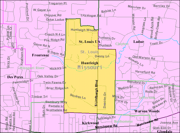 U.S. Census locator map of Huntleigh, Missouri